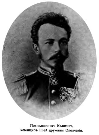 A portrait of ltcln P. Kalitin, a hero in the liberation of Bulgaria from Ottoman yoke. 1877-1878. Source is from BEFORE 1877 and, therefore, is public domain.